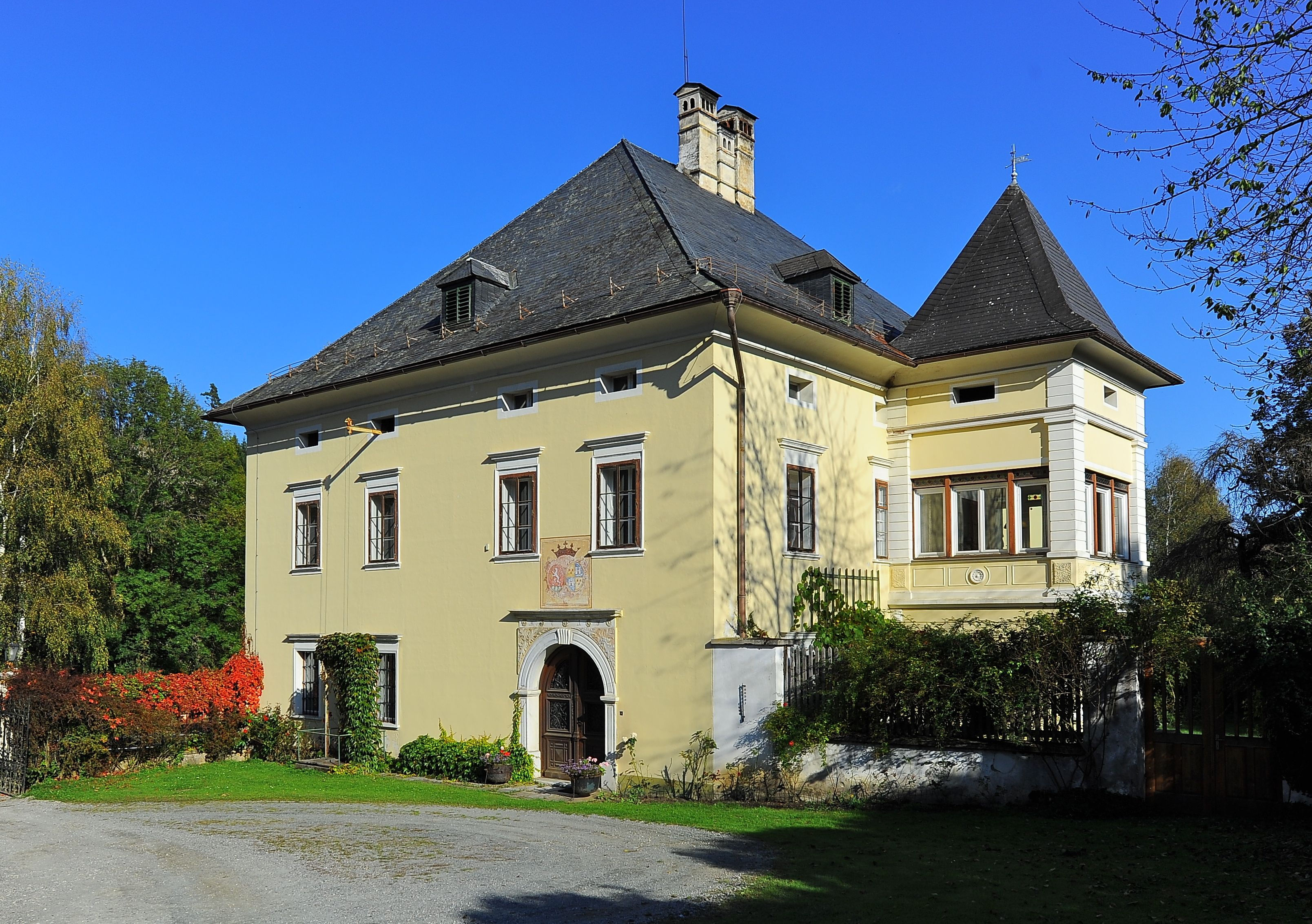 Castle Poitschach in Poitschach, municipality Feldkirchen, district Feldkirchen, Carinthia, Austria, EU